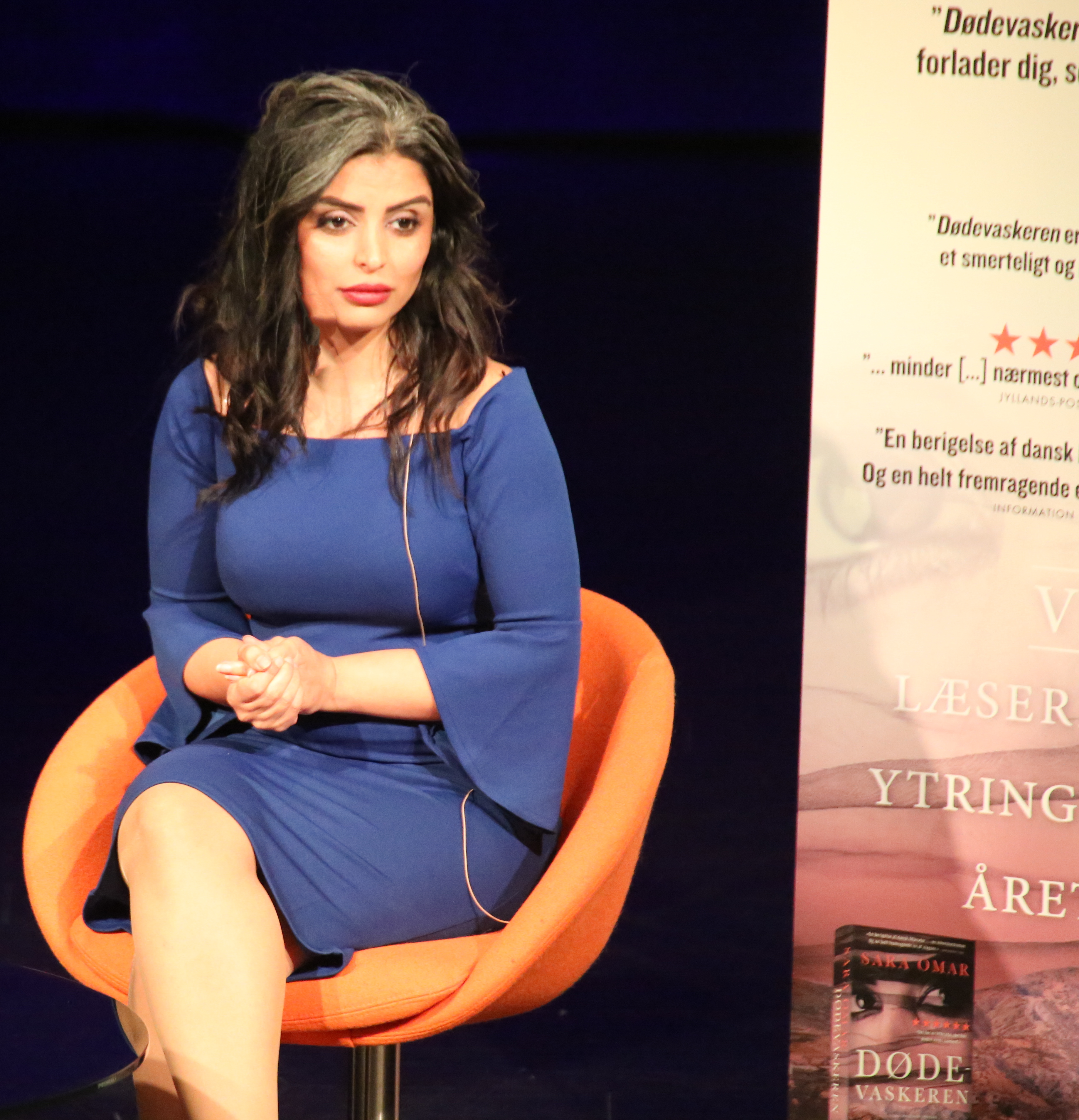 Danish-kurdish author Sara Omar on stage in Aarhus during an interview with Politiken's editor of litterature, Jes Stein Pedersen